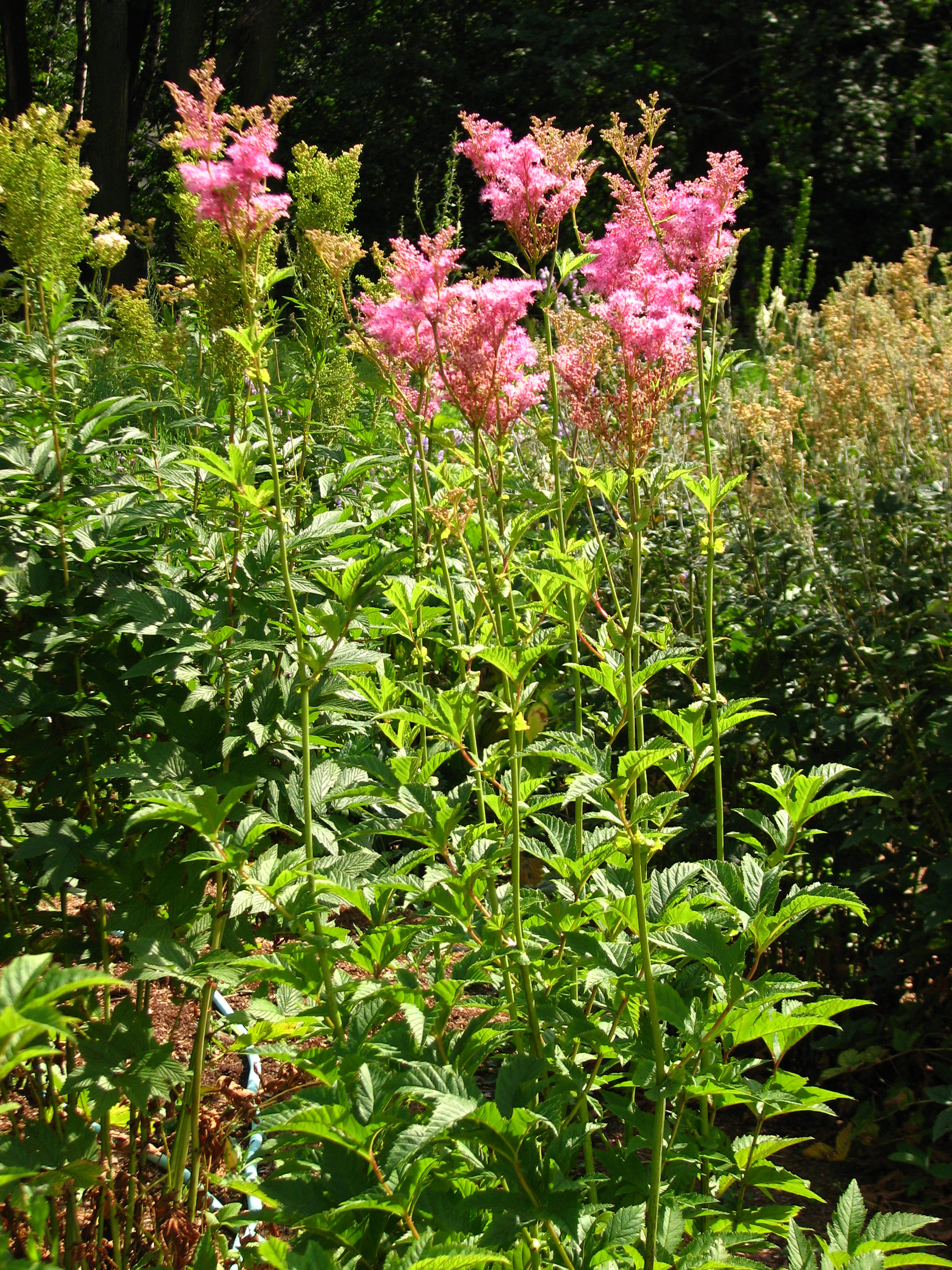 Filipendula rubra 'Venusta'. From the collection of the Main Botanical Garden of Academy of Sciences in Moscow (perennials plot).